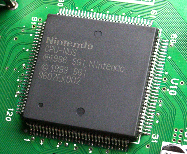 CPU-NUS(R4300 custom) in Nintendo64(NUS-001(JPN),PCB:NUS-CPU-01).